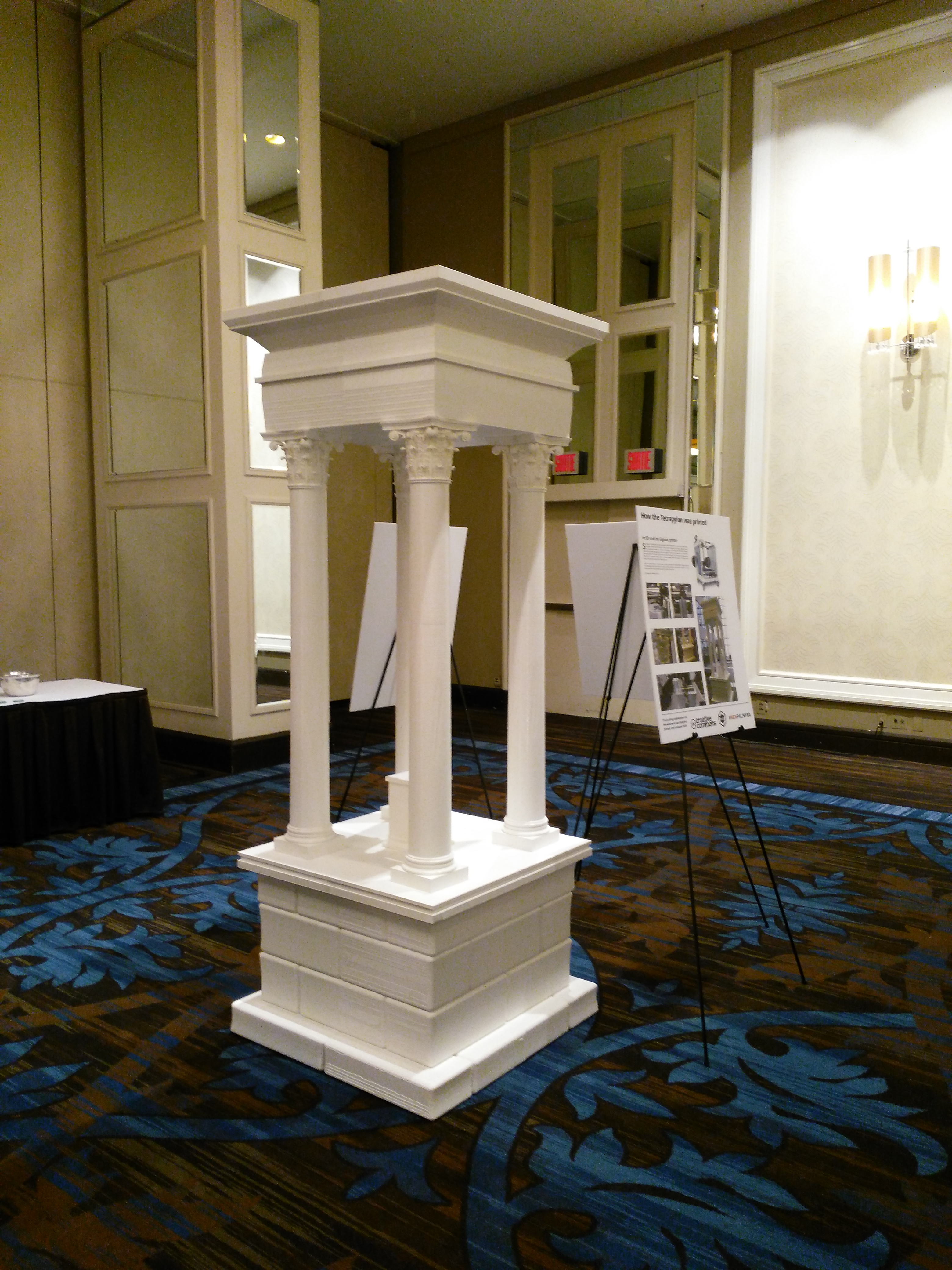 A 3D-printed model of Palmyra's Tetrapylon, based on data of Bassel Khartabil's work on the New Palmyra project. As displayed at Wikimania 2017, Montréal.